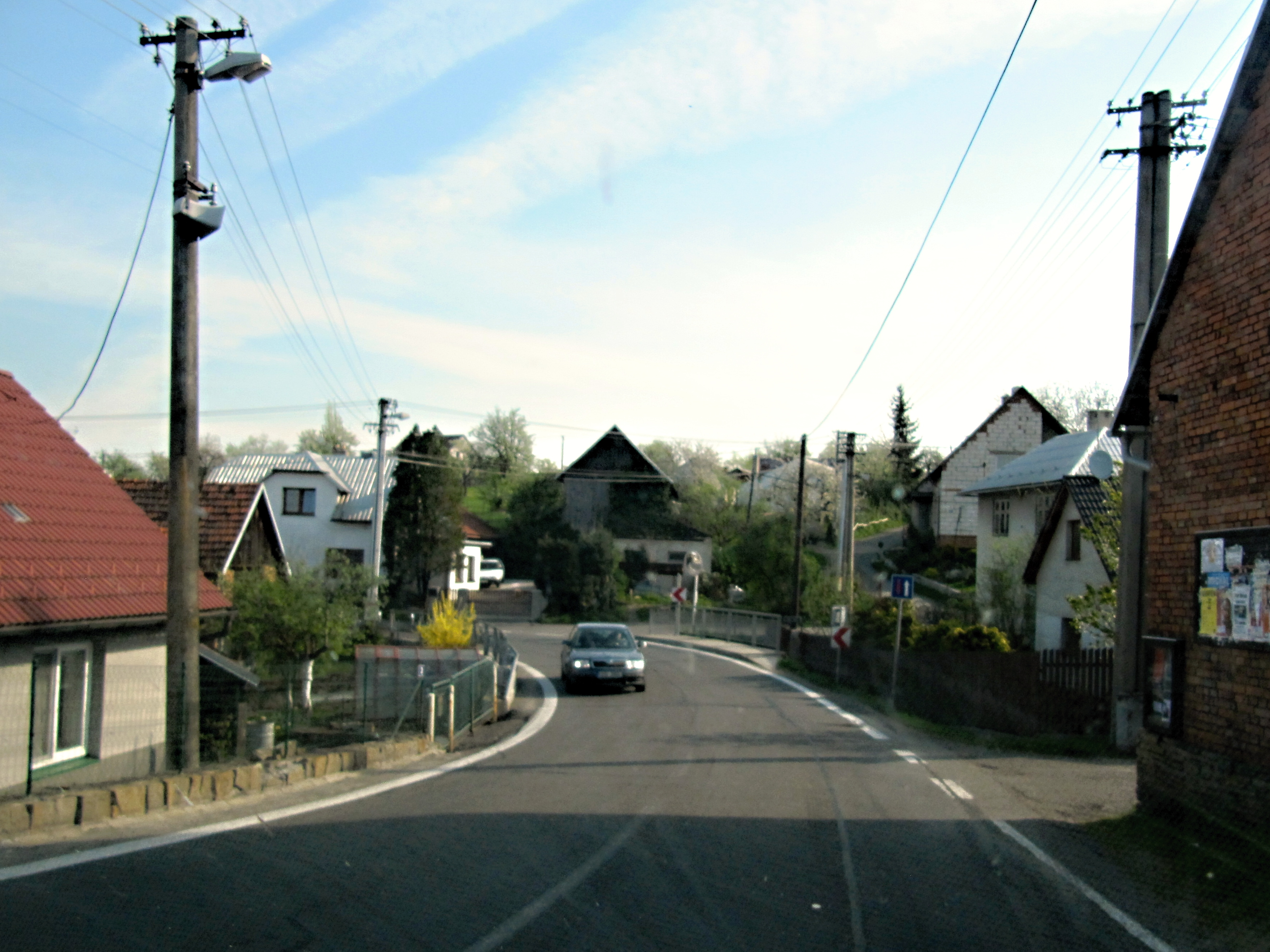 Lhotsko in Zlín District, Czech Republic.